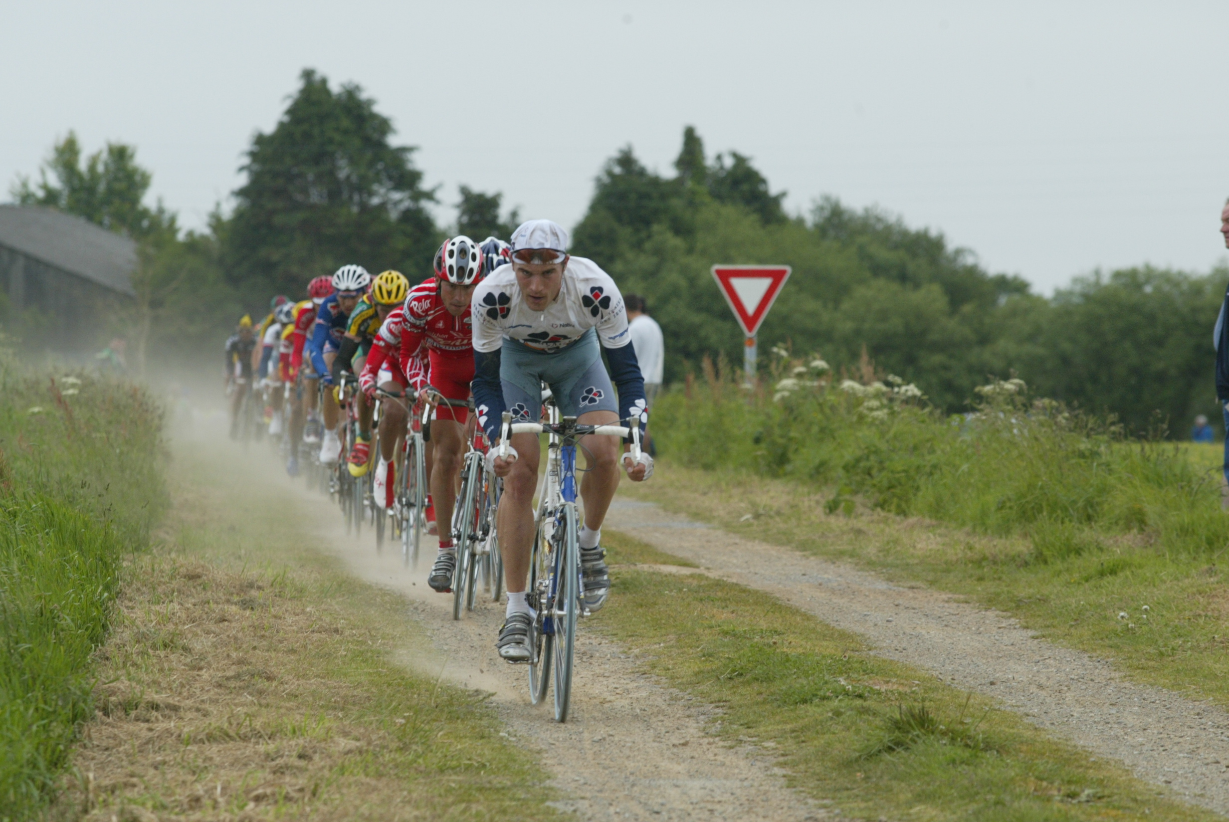 Franck Perque au Tro Bro Leon 2002